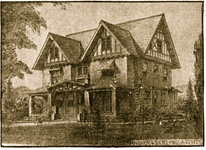 Residence designed by Chauncey Fitch Skilling for W. W. Richardson on Occidental Boulevard, Los Angeles, (with Otto E Neher), in an English renaissance style, "with simple lines in the design of the half timbers as well as the roof line." The lower story had a "large reception room, living rooms, library, den, dining room, kitchen and servants' room." The upper floor had four bedrooms, a dressing room and bathrooms. There was a furnace, automatic water heater and "all latest conveniences."